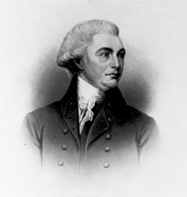 From the LIbrary of Congress